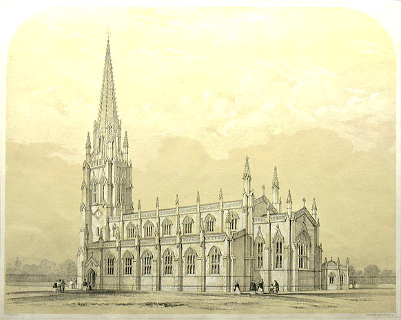 Method Lithograph Artist T. Bury Published Published by Day & Haghe Dimensions Image 320 x 387 mm; Sheet 376 x 465 mm